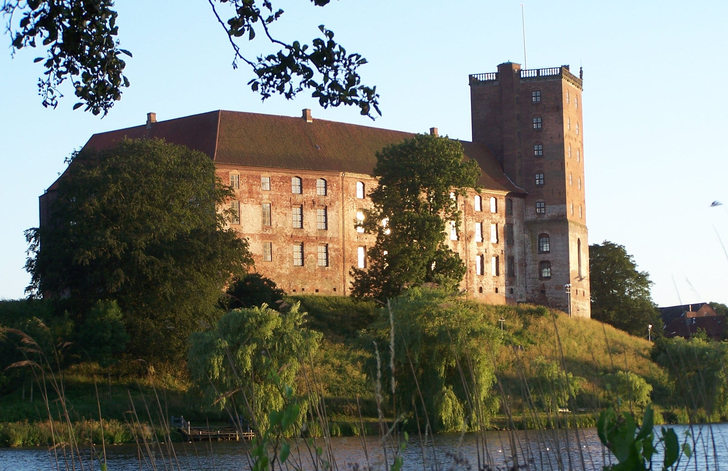 The castle "Koldinghus" in the city of "Kolding". It is located in South-Central Jutland, Denmark.